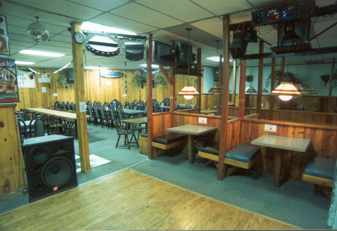 The location at 3010 West Lincoln Avenue in Anaheim, California, taken from the karaoke stage.